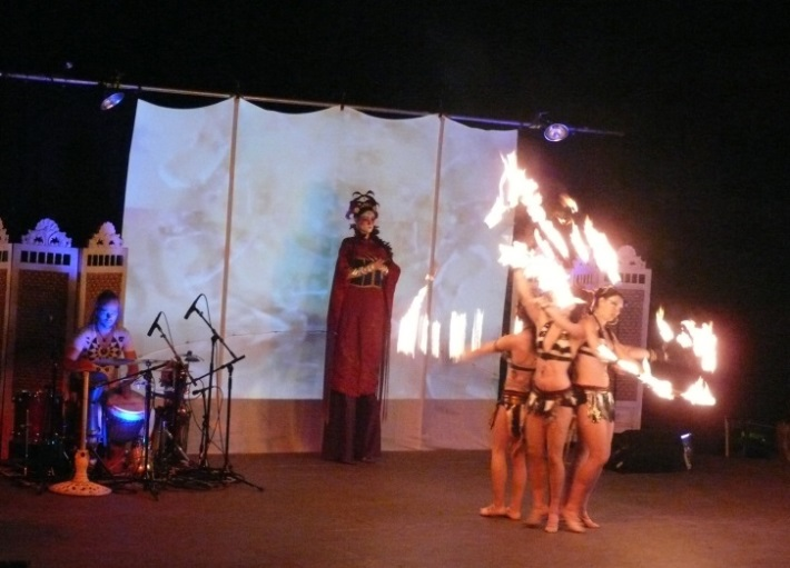 Shows a performance on the Green Show stage of the Oregon Shakespeare Festival